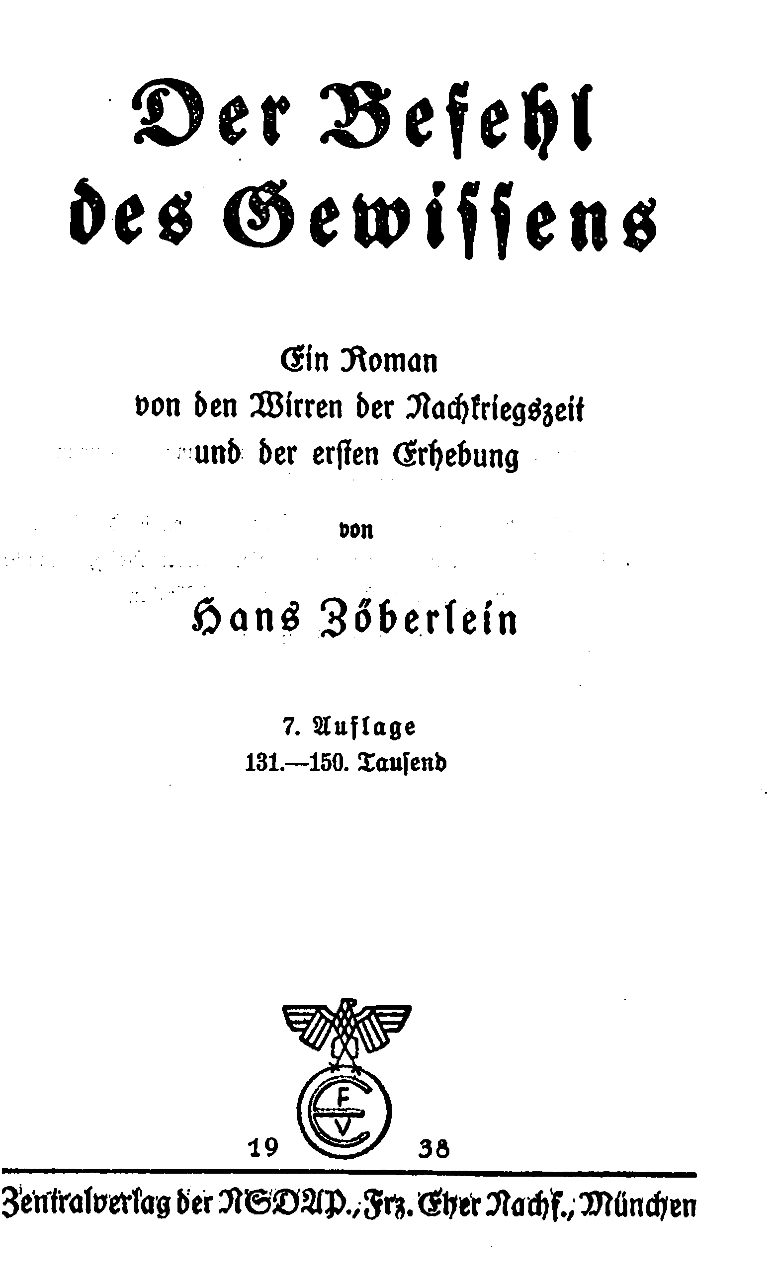 Cover of the book "Befehl des Gewissens" by the Nazi Author Hans Zöberlein (1937)